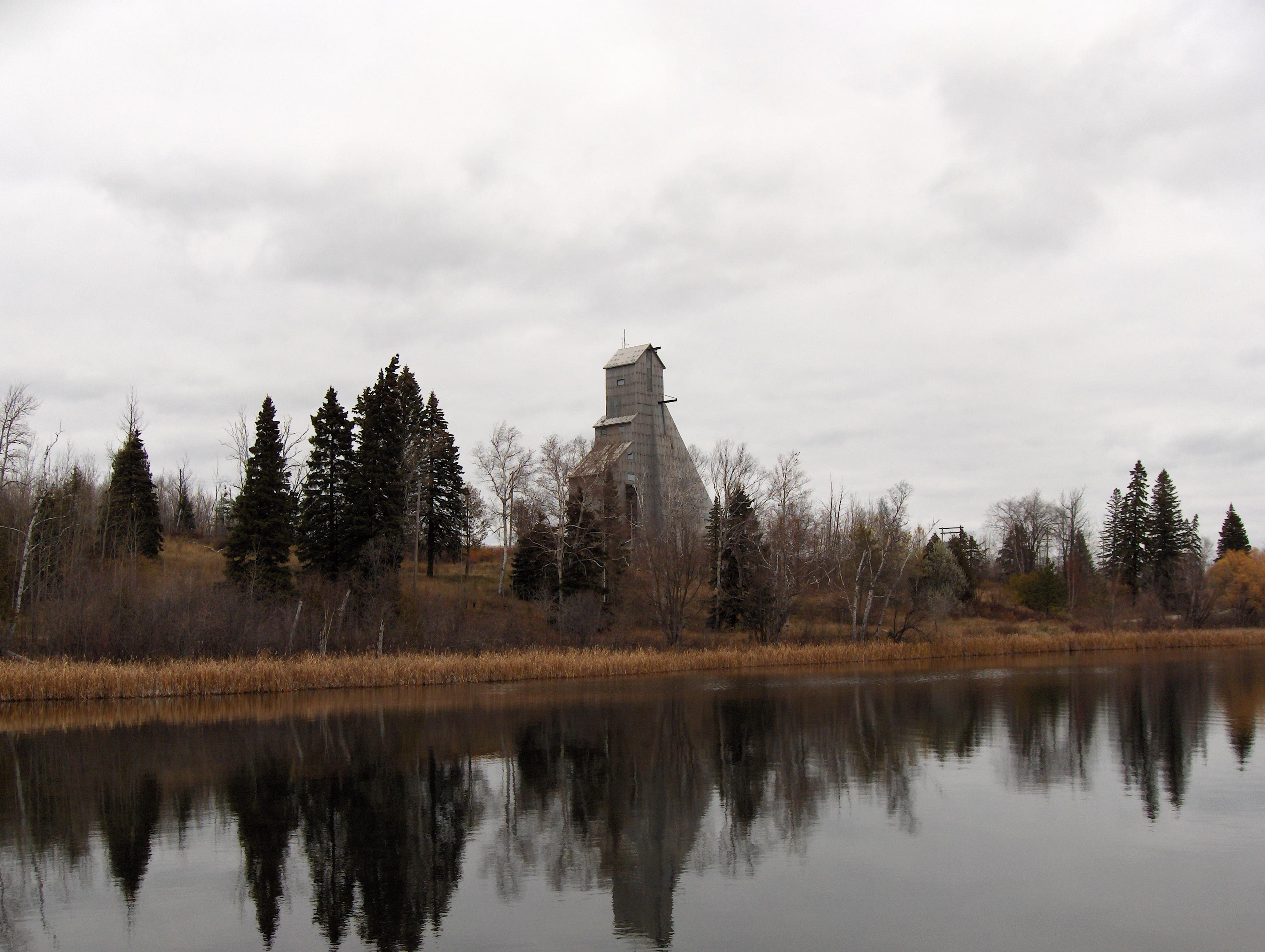 Author - John Monaghan Source - HP Photosmart R717